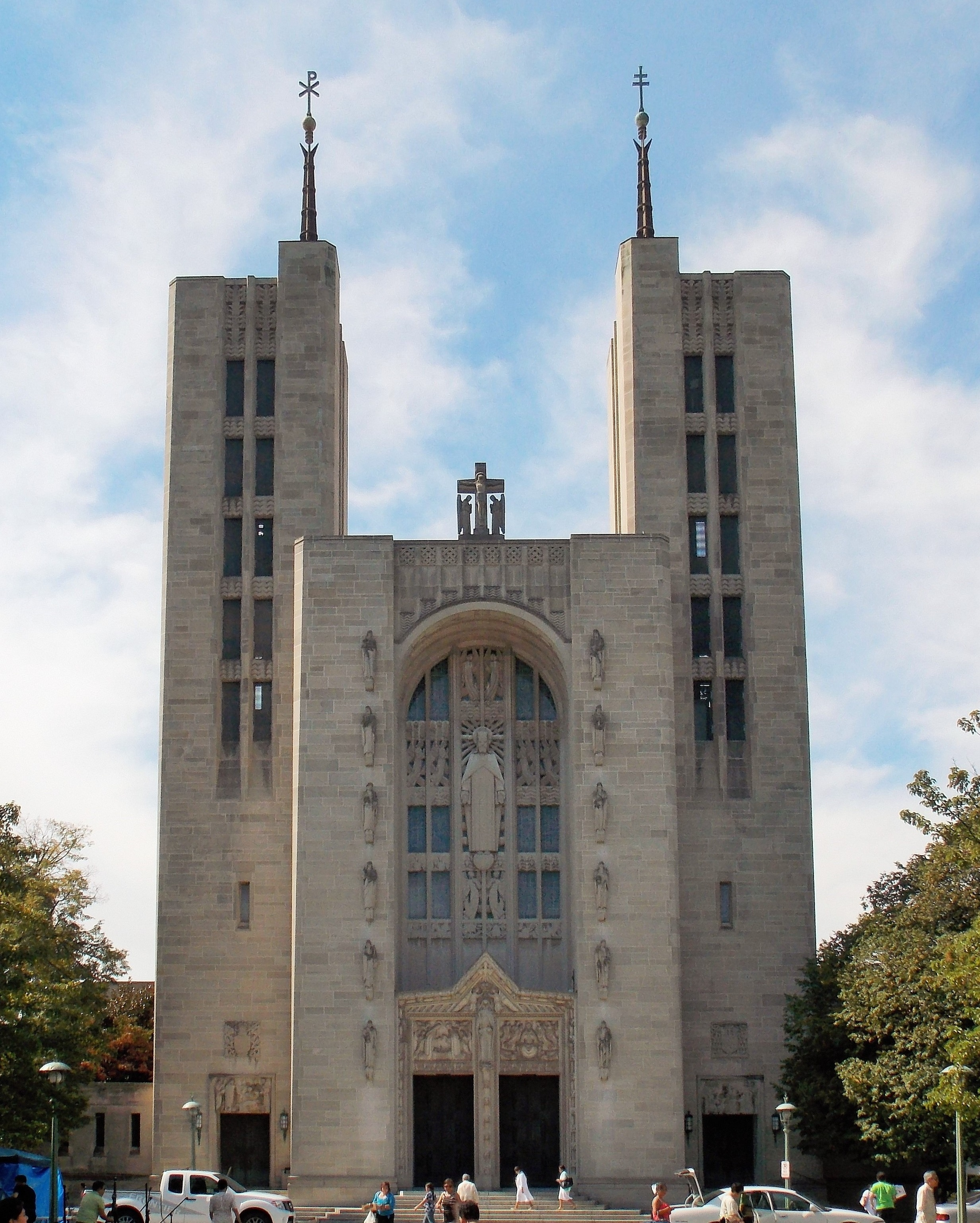 Cathedral of Mary our Queen, Metropolitan Cathedral of the Roman Catholic Archdiocese of Baltimore in Baltimore, Maryland